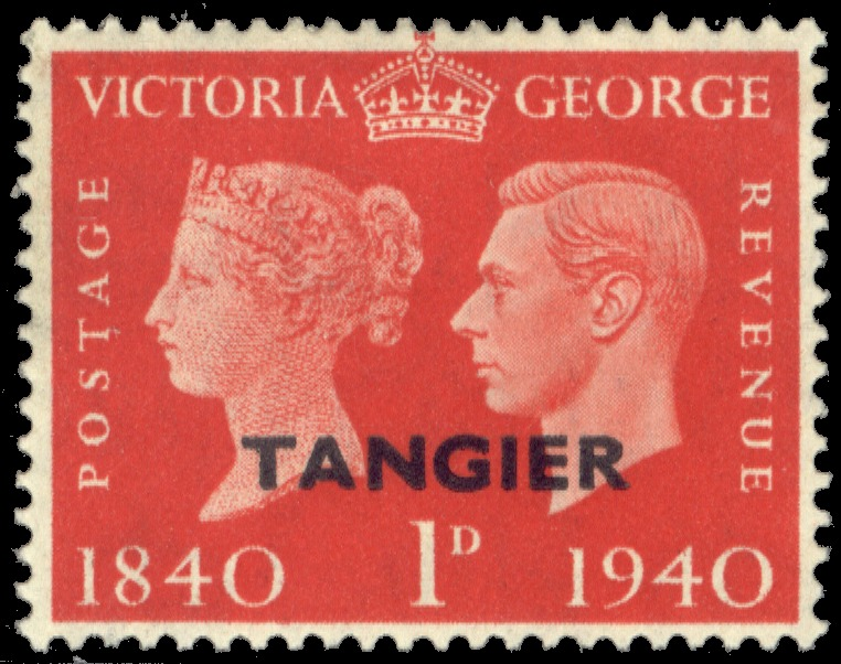 Stamp of 1d for use by the British PO in Tangier. Overprint TANGIER on 1940 stamp centenary issue.